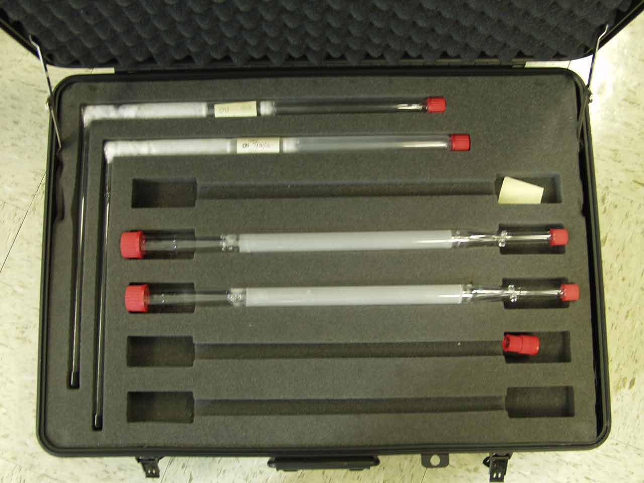 Denuders, as used in atmospheric research by the NOAA Earth System Research Laboratory, Global Monitoring Division